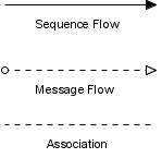 BPMN Connecting